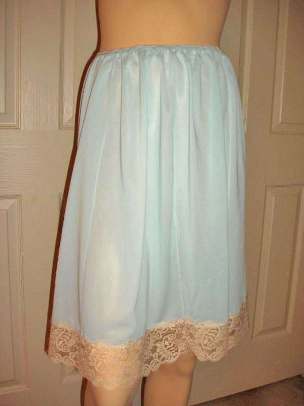 Own work, light blue half slip with lacy hem